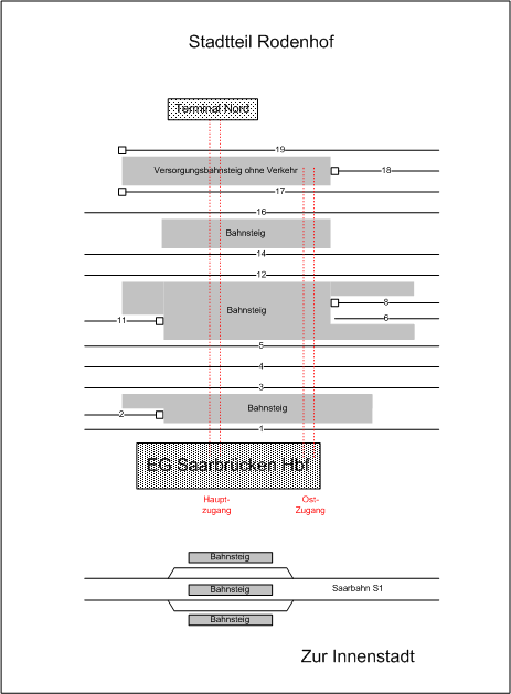 Saarbrücken Hbf track plan after the rebuild in 2008